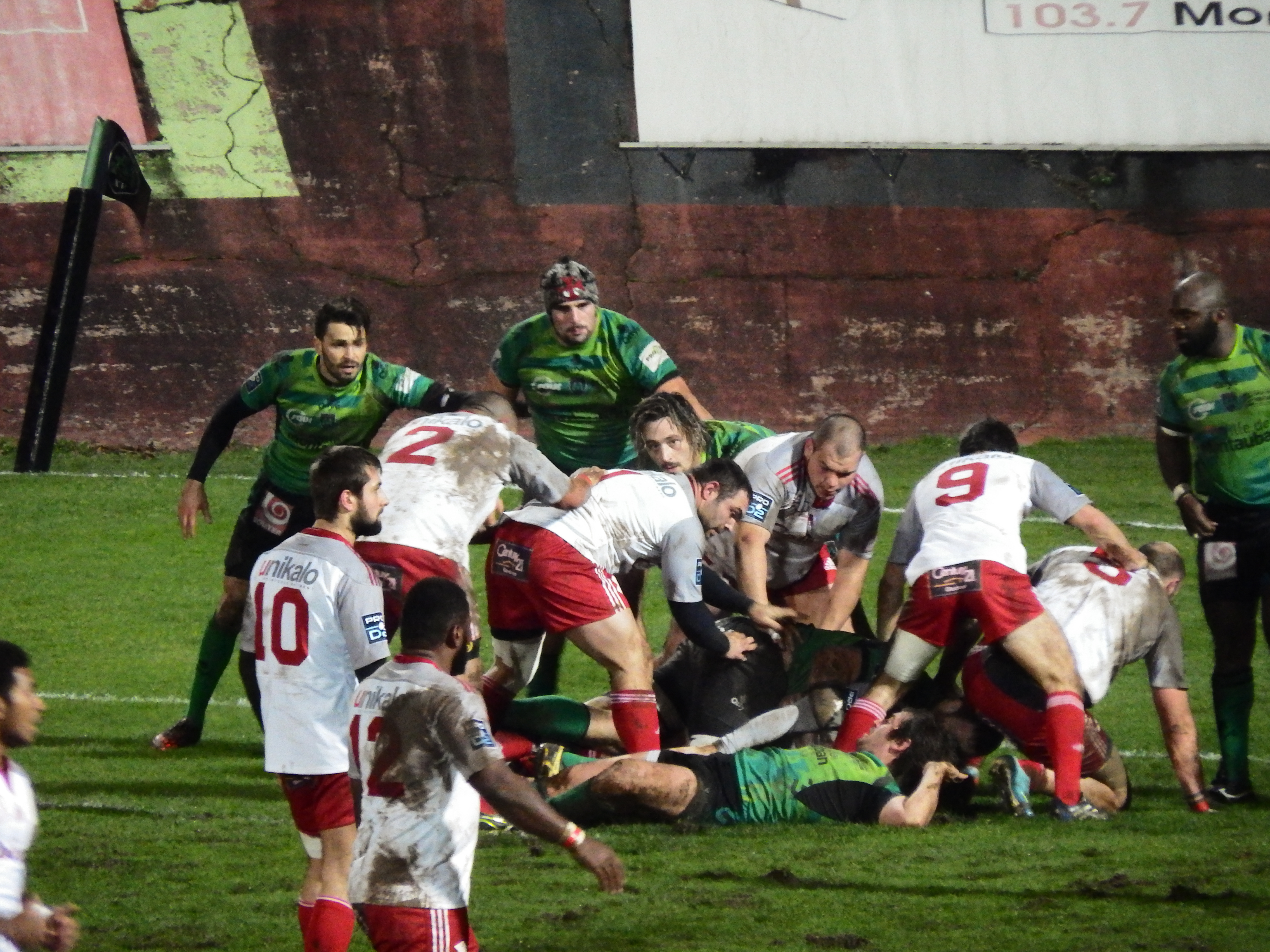 Pro D2 2014-2015 — 17 January 2015, parc des sports de Sapiac. Match between: US Montauban — US Dax